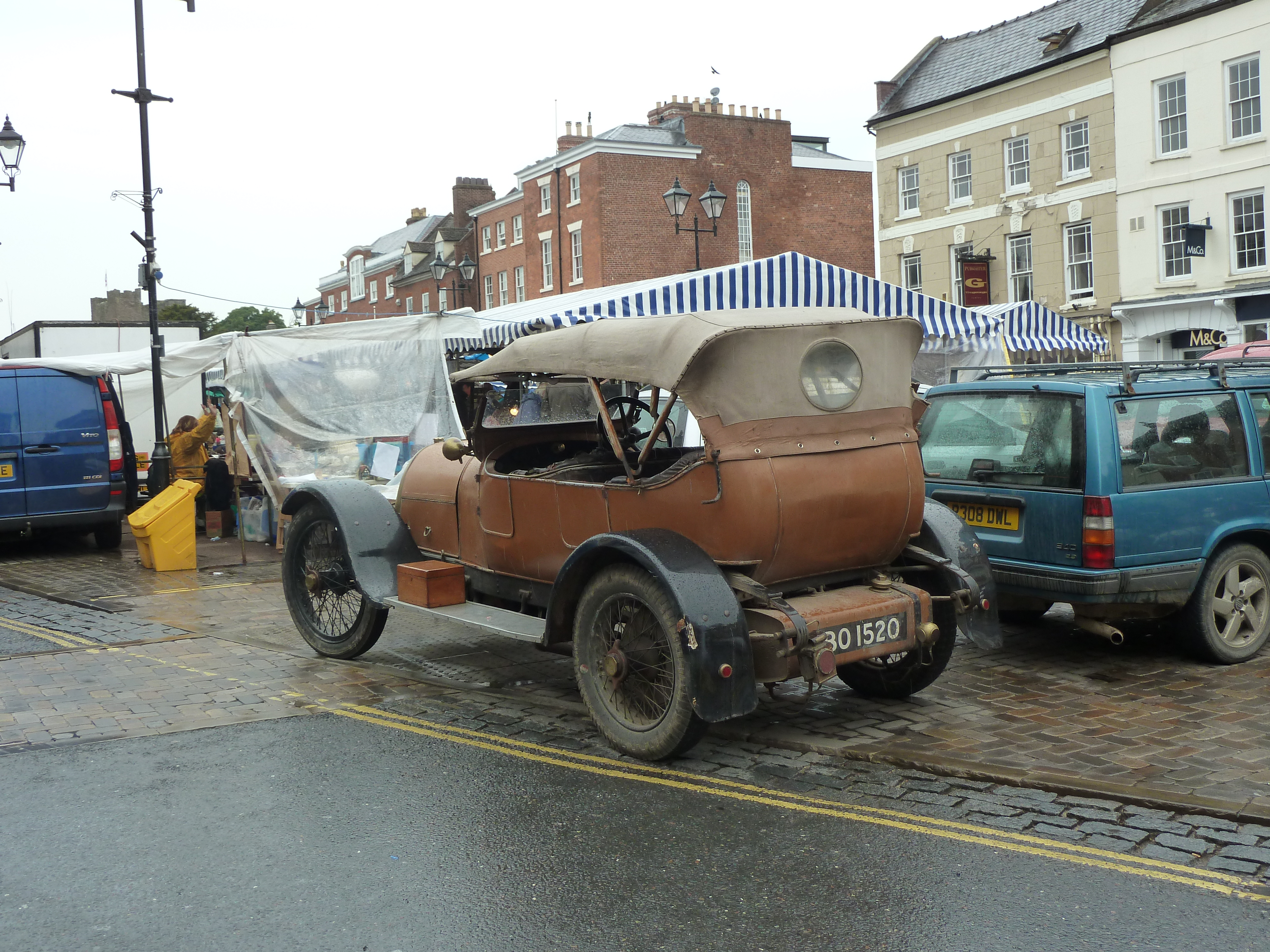 Züst 28hp car of 1912 Ludlow market